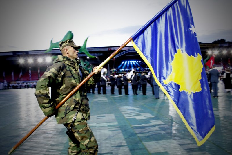 FSK (KSF) flag of Kosovo in Netherlands(Nijmegen 4 dagse)